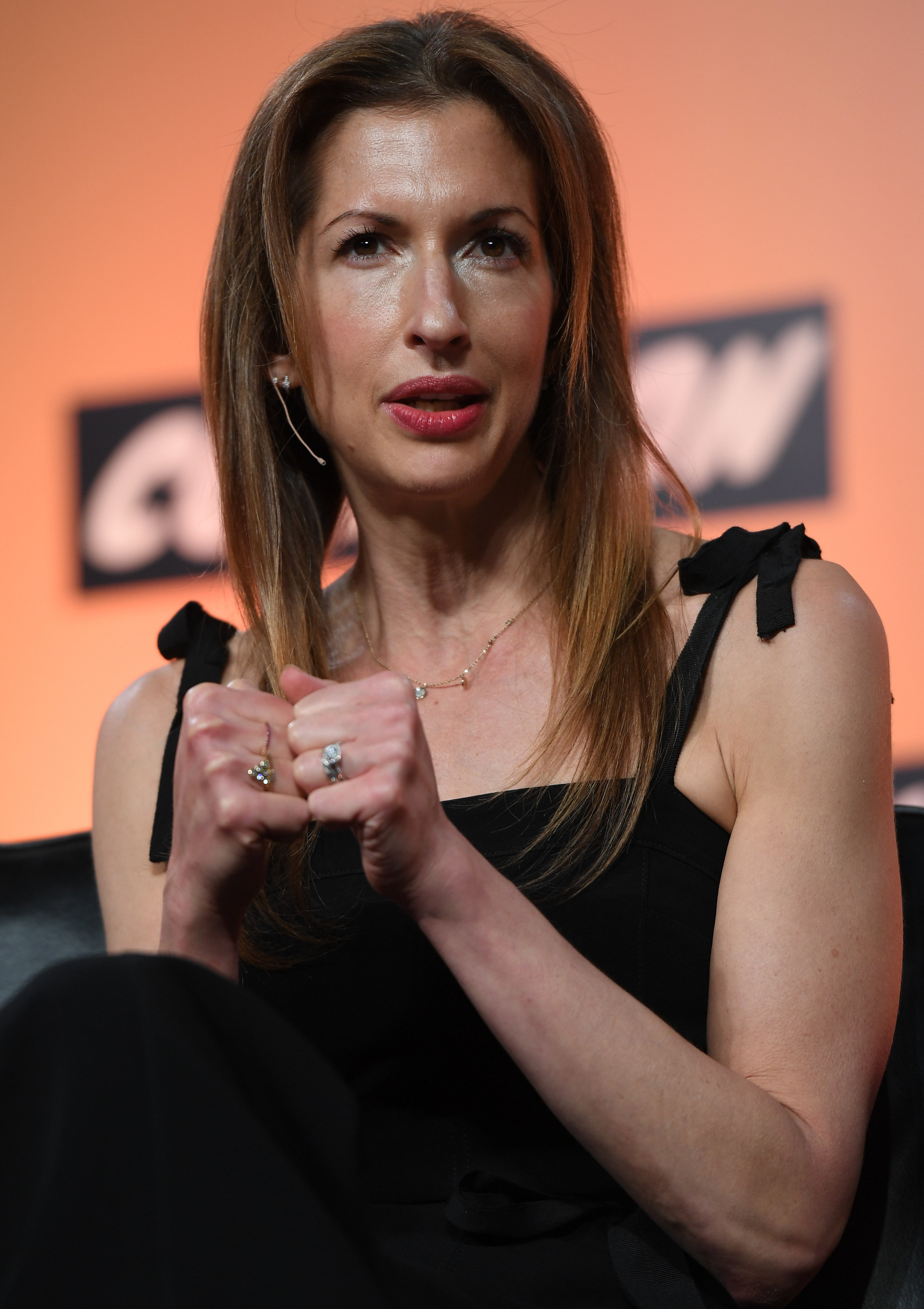 4 May 2017; Alysia Reiner, Actress&Activist, Alysia Reiner, on the Center Stage at Collision 2017 in New Orleans, Louisiana. Photo by Stephen McCarthy / Collision / Sportsfile